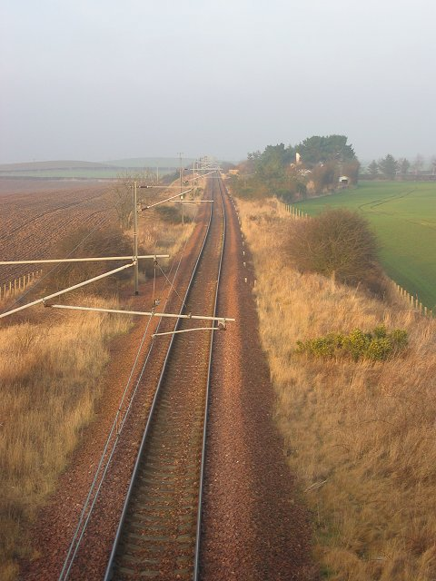 Dirleton Station.Looking north along the railway, miraculously still open to North Berwick. The building in the trees was once Dirleton Station.